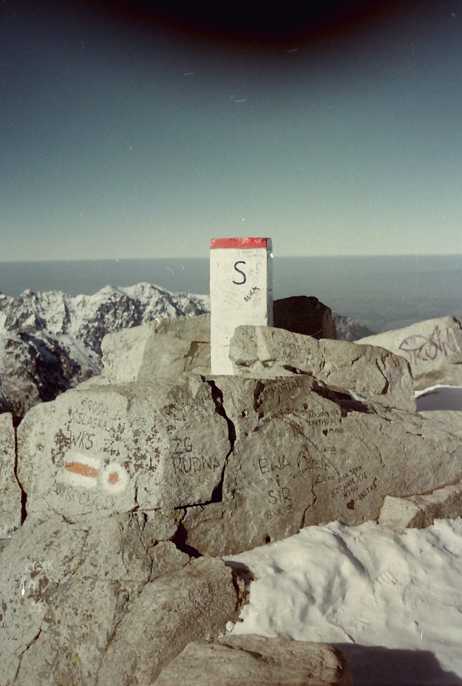 Rysy summit